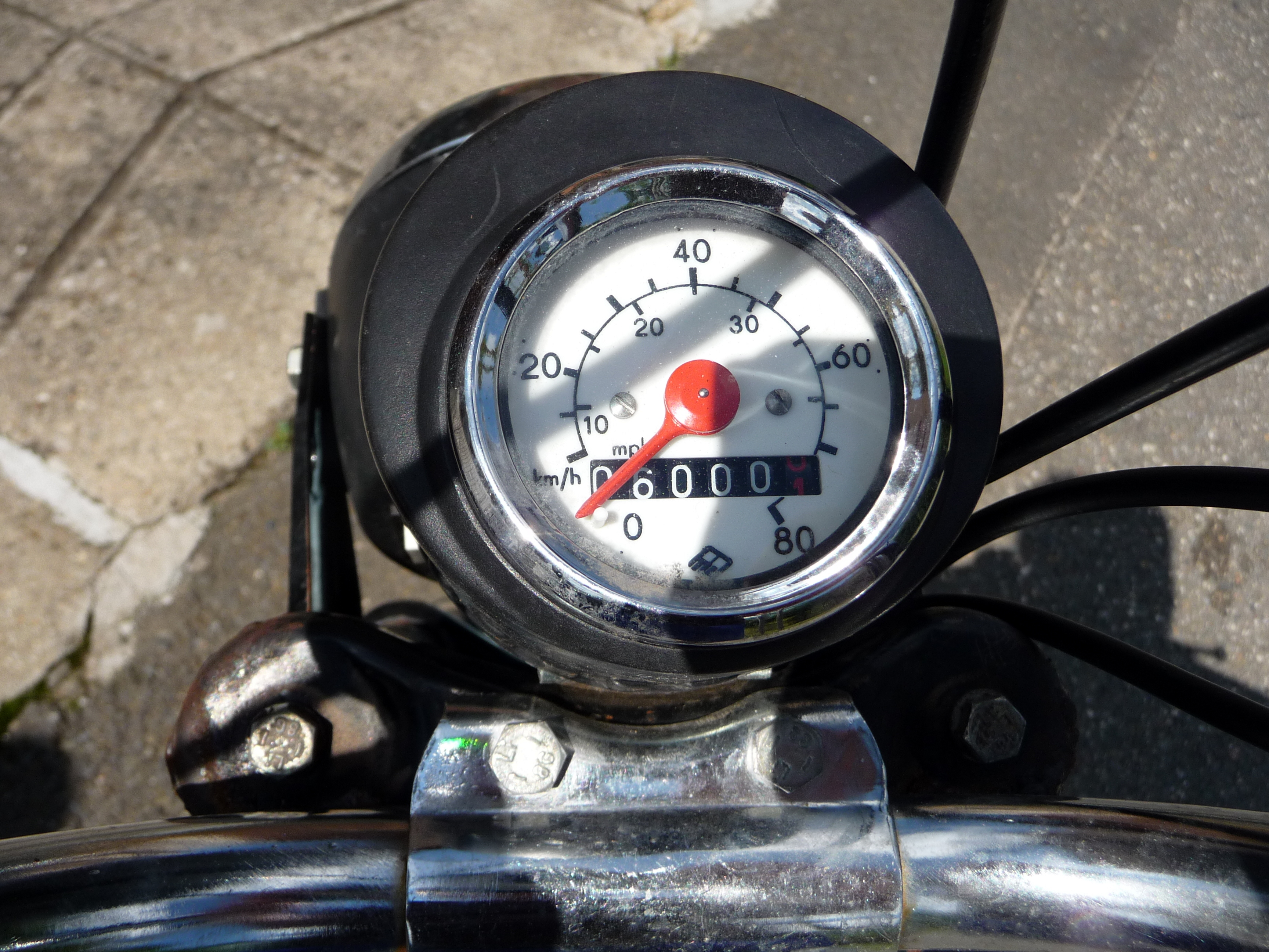 Speedometer and tachometer with 6000 km on Babetta moped